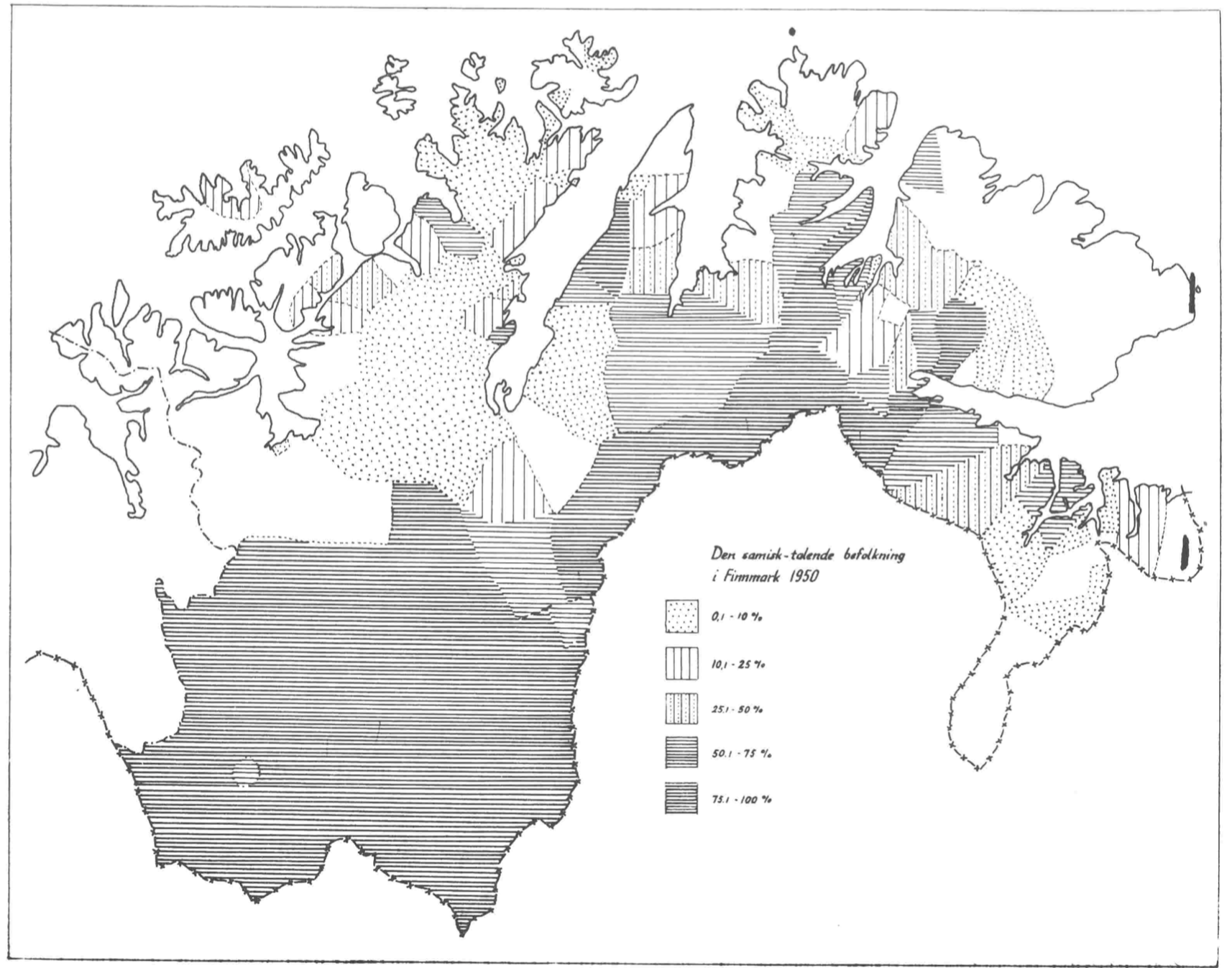 The file shows statistical information on a map